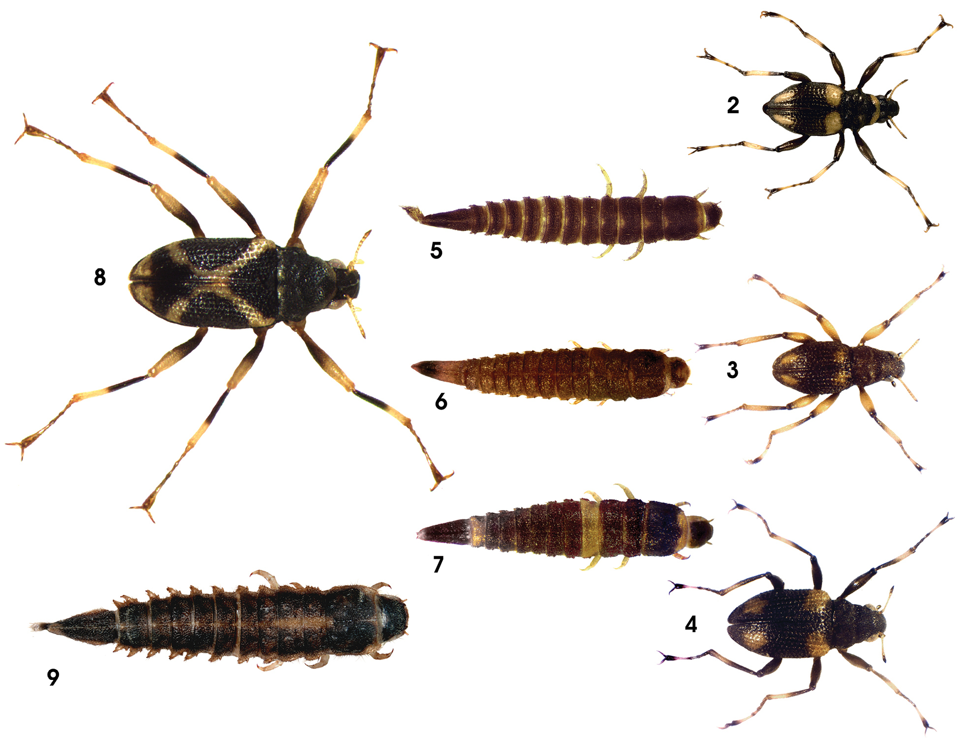 Habitus (not to scale) of 2 Ancyronyx minerva, adult 3 Ancyronyx tamaraw, sp. n. adult 4 Ancyronyx buhid, sp. n., adult 5 Ancyronyx minerva, larva 6 Ancyronyx tamaraw, sp. n., larva 7 Ancyronyx buhid, sp. n., larva 8 Ancyronyx schillhammeri, adult 9 Ancyronyx schillhammeri, larva.